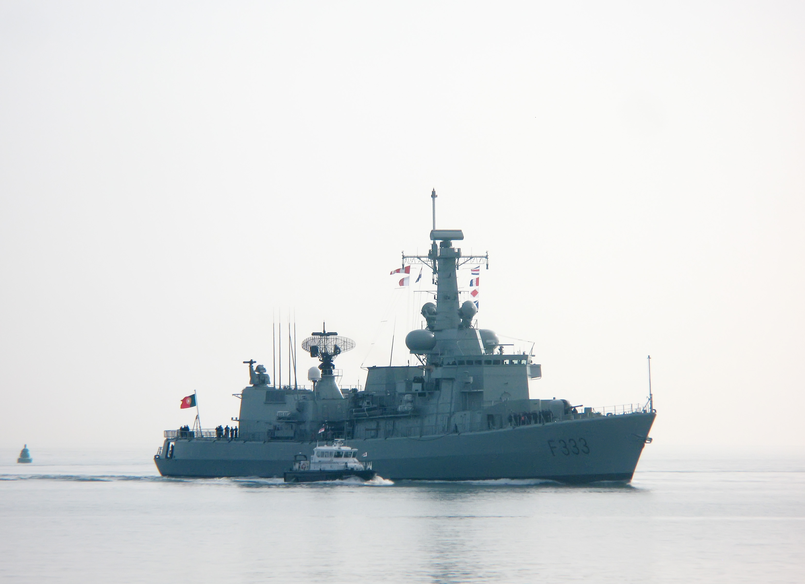 NRP Bartolomeu Dias, a Karel Doorman class frigate of the Portuguese Navy entering Portsmouth Naval Base, UK, on a misty day on 20th February 2009. Image uploaded by me User:George.Hutchinson from a photograph taken by and supplied by Brian Burnell. Wikipedia editors are reminded that the copyright remains with the photographer, and that the terms of the Creative Commons licence; that allow editors to reuse this image apply to Wikipedia editors also, as they do to other re-users of this image. Breaches of the licence terms are not only unlawful, but are also antisocial, in that breaches discourage photographers from making their images freely available to everyone without payment. Wikipedia re-users are also reminded of the license terms that derivatives of this image should not imply that the adaptation is endorsed or approved by the author or copyright holder. Neither should derivatives be presented as the creation of the author or copyright holder, while clearly stating that the adaptation is a derivative of the original. Attribution online should be in this format Brian Burnell. On the printed page, a simpler form is acceptable - example: "Image: Brian Burnell". Non-Wikipedia users are requested to advise Brian Burnell of its use other than on Wikipedia.